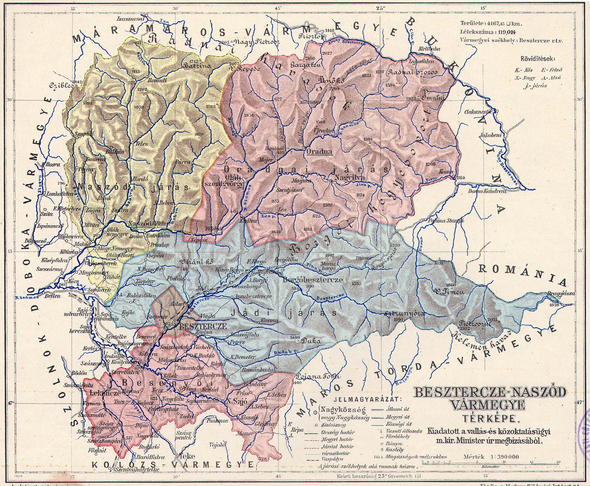 Administrative map of the county of Beszterce-Naszód in the Kingdom of Hungary